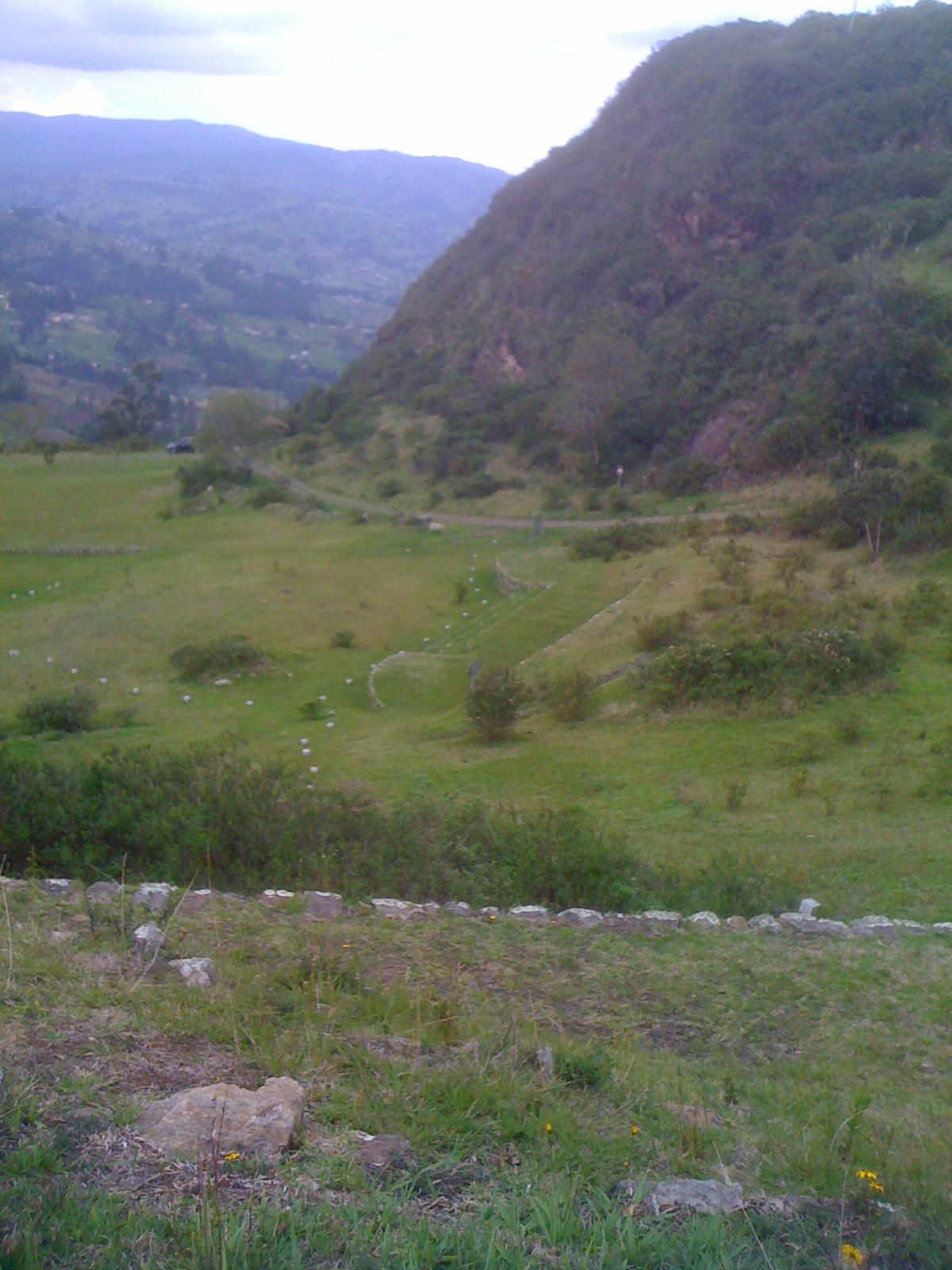 Stage-like terras on Cojitambo archeological site, Canar, Ecuador